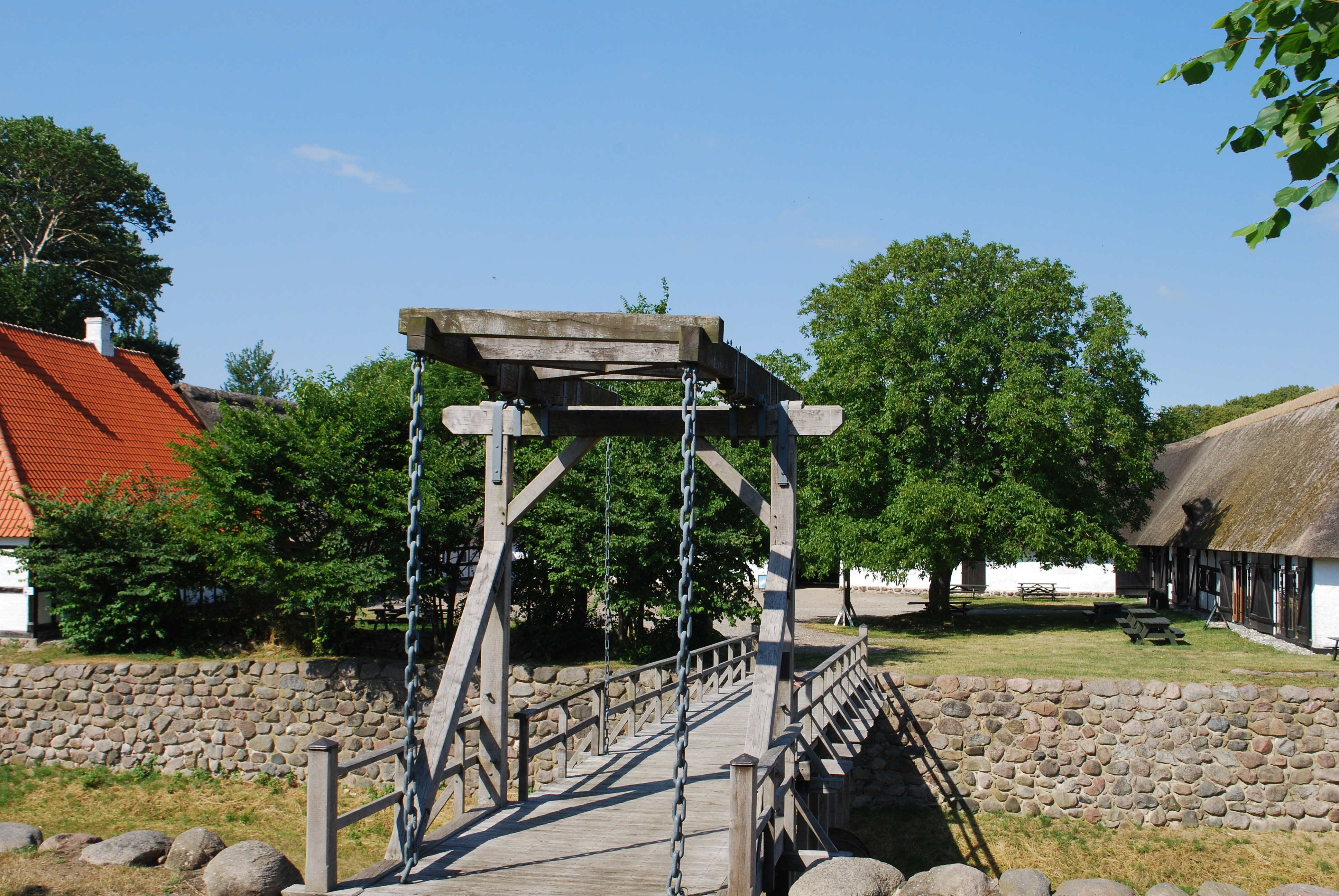 Søbygaard, Ærø, Denmark